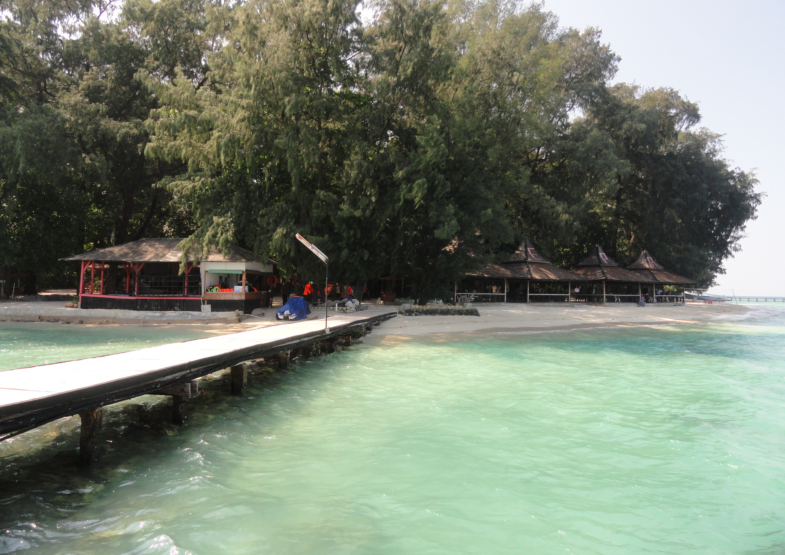 Sepa Island, Thousand Islands, Jakarta, Indonesia